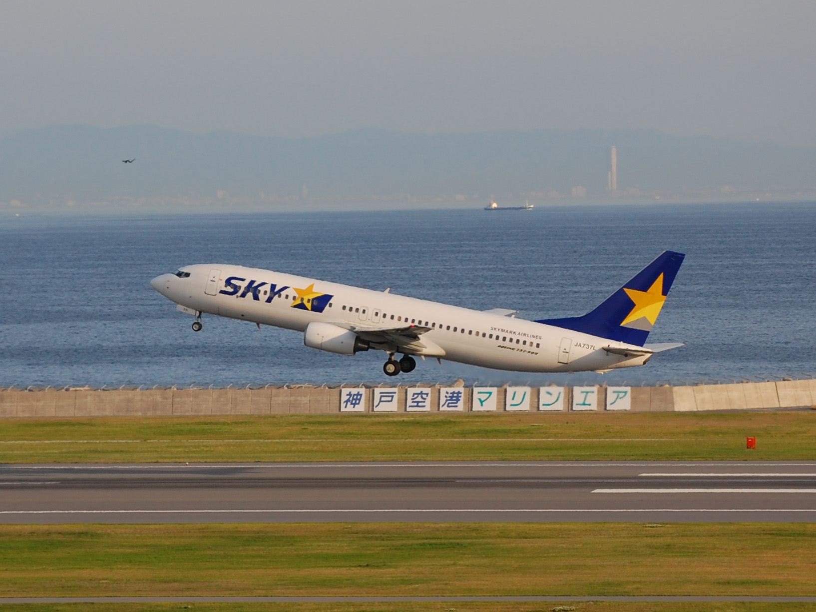 Skymark Boeing 737-800 taking off Kobe Airport, Japan)